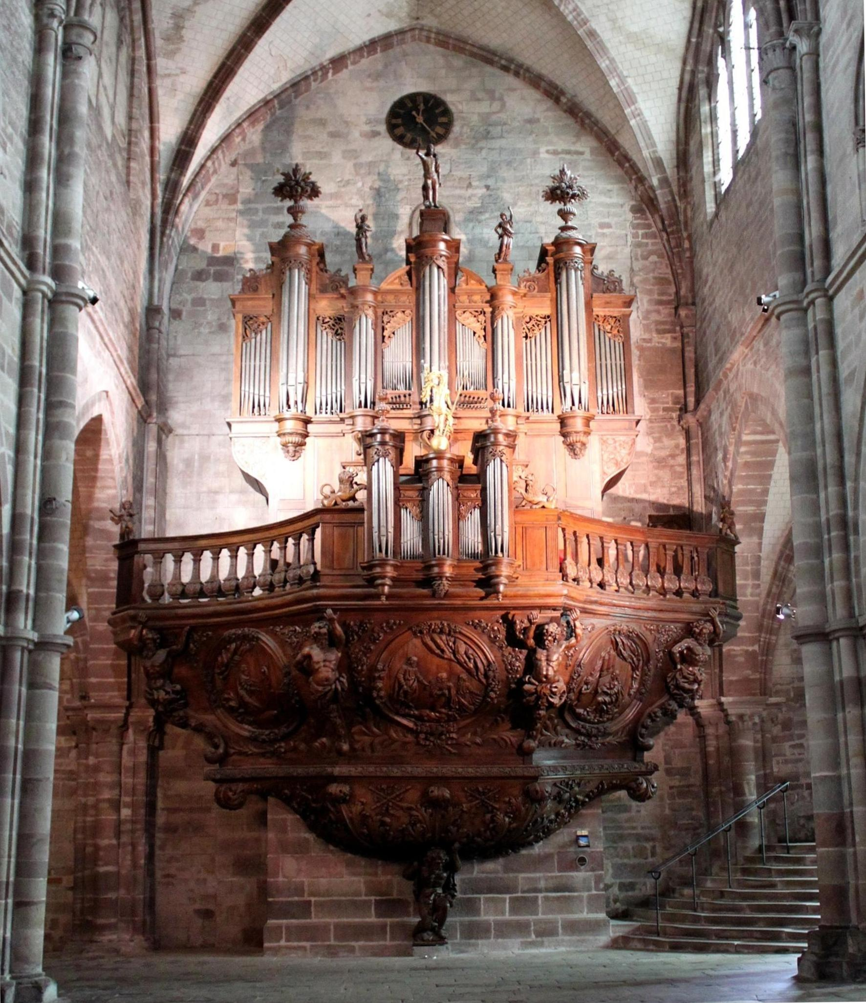 Organ of Luxeuil's Abbey, France